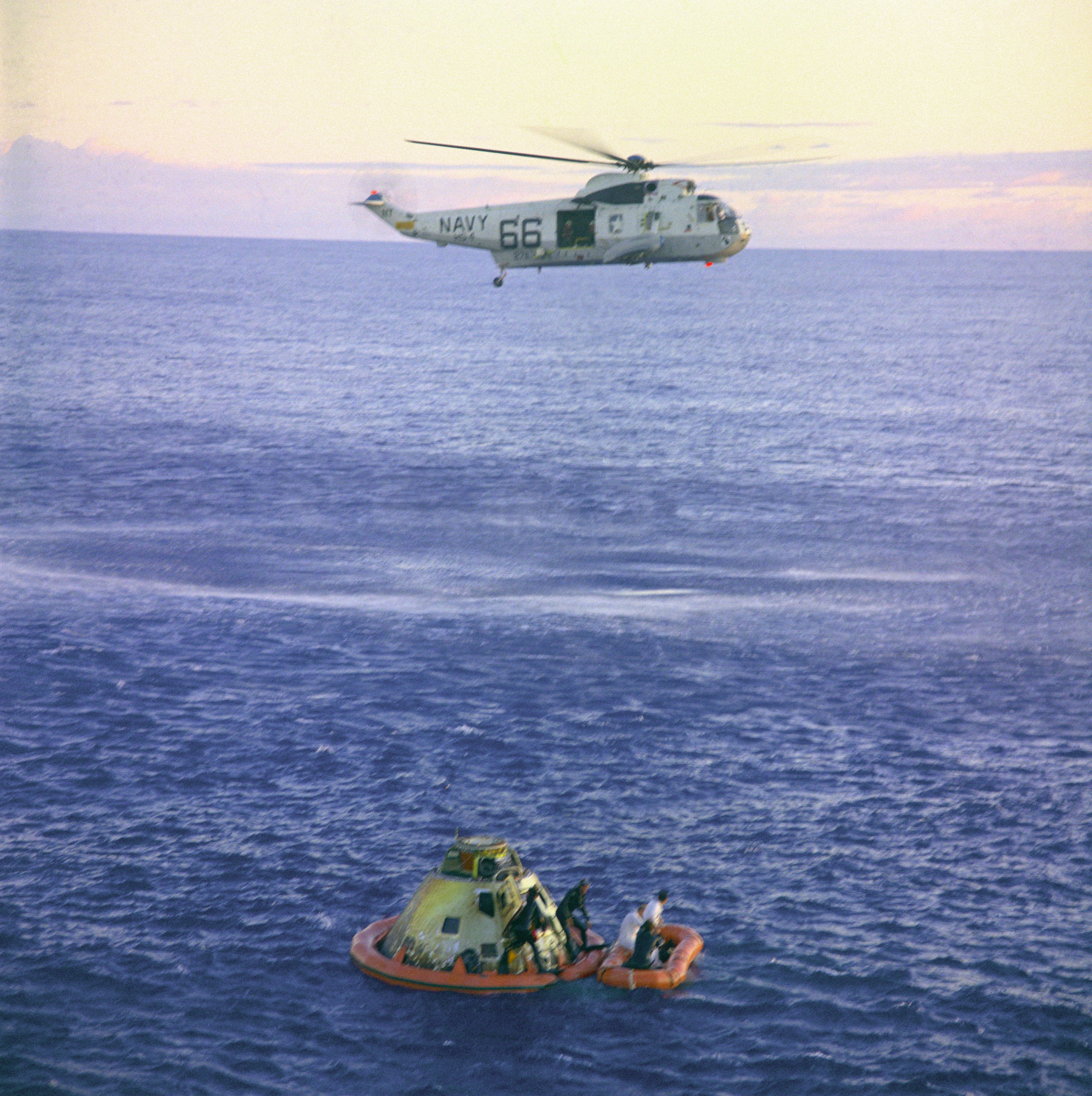 A U.S. Navy Sea King helicopter arrives to recover the Apollo 10 astronauts, seen entering a life raft, as the Command Module "Charlie Brown" floats in the South Pacific. U.S. Navy underwater demolition team swimmers assist in the recovery operations. The splashdown occurred at 11:53h, 26 May 1969, about 660 km (400 mi) east of American Samoa. Note that in this photo the divers have attached a flotation collar to the spacecraft. The recovery helicopter was the Sikorsky SH-3D Sea King helicopter no. "66" (BuNo 152711) of Helicopter Anti-Submarine Squadron 4 (HS-4) "Black Knights". From late 1968 through the spring of 1970, the "Black Knights" of HS-4 participated in and pioneered techniques for the Apollo capsule recoveries. HS-4 was on scene for Apollo missions 8, 10, 11, 12, and 13. The helicopter's flight number was changed from "66" to "740", as after the Apollo 11 recovery the U.S. Navy had switched to a three number squadron designator - but the helicopter was repainted with the number "66" for each recovery thereafter for public relations reasons. The Sea King BuNo. 152711 could not be preserved, as it crashed on 4 June 1975 on a training flight out Imperial Beach (California, USA). Although the crew was rescued the pilot died later of his injuries. The wreck sank to a depth of ca. 700 m.